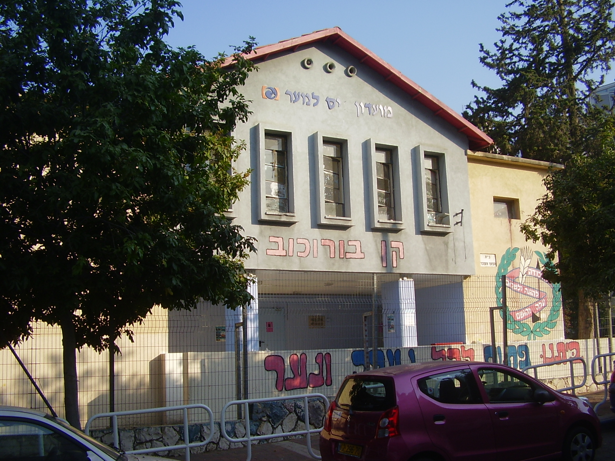 Working youth house in Givataym